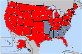 presidential elections 1956- results by state in the USA